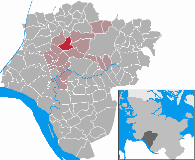 This map shows the area of the municipality Kaaks in the Kreis (district) Steinburg, Schleswig-Holstein, Germany.